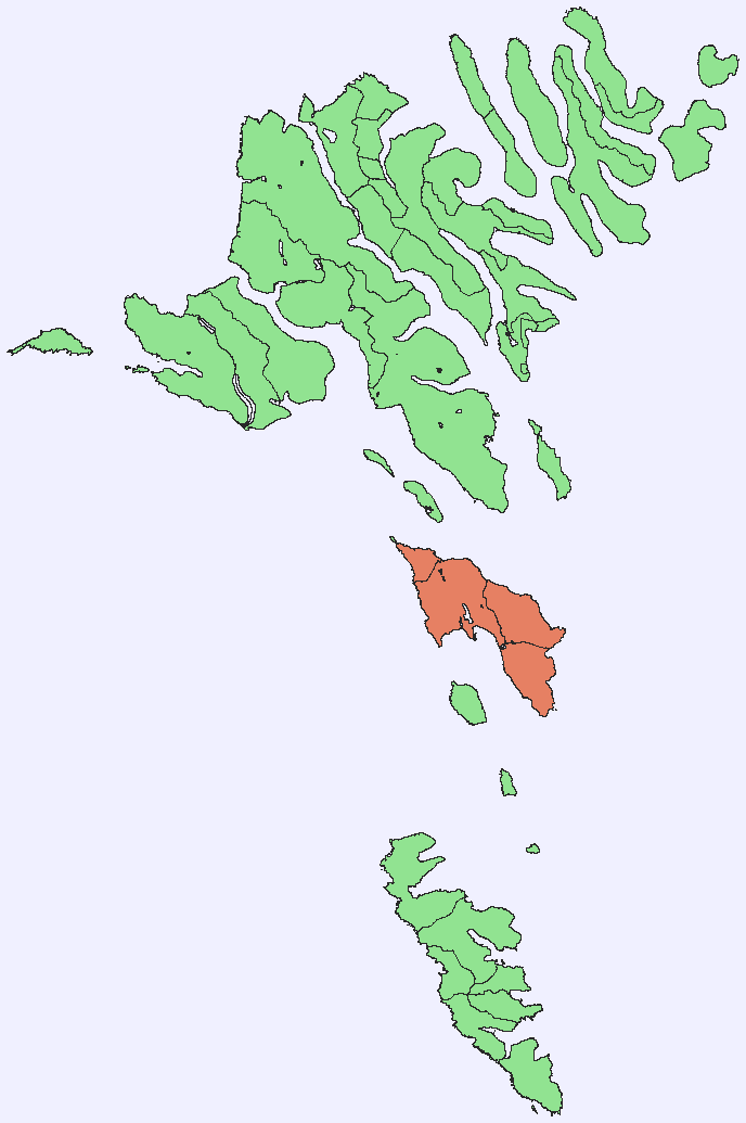 Position of Sandoy, Faroe Islands